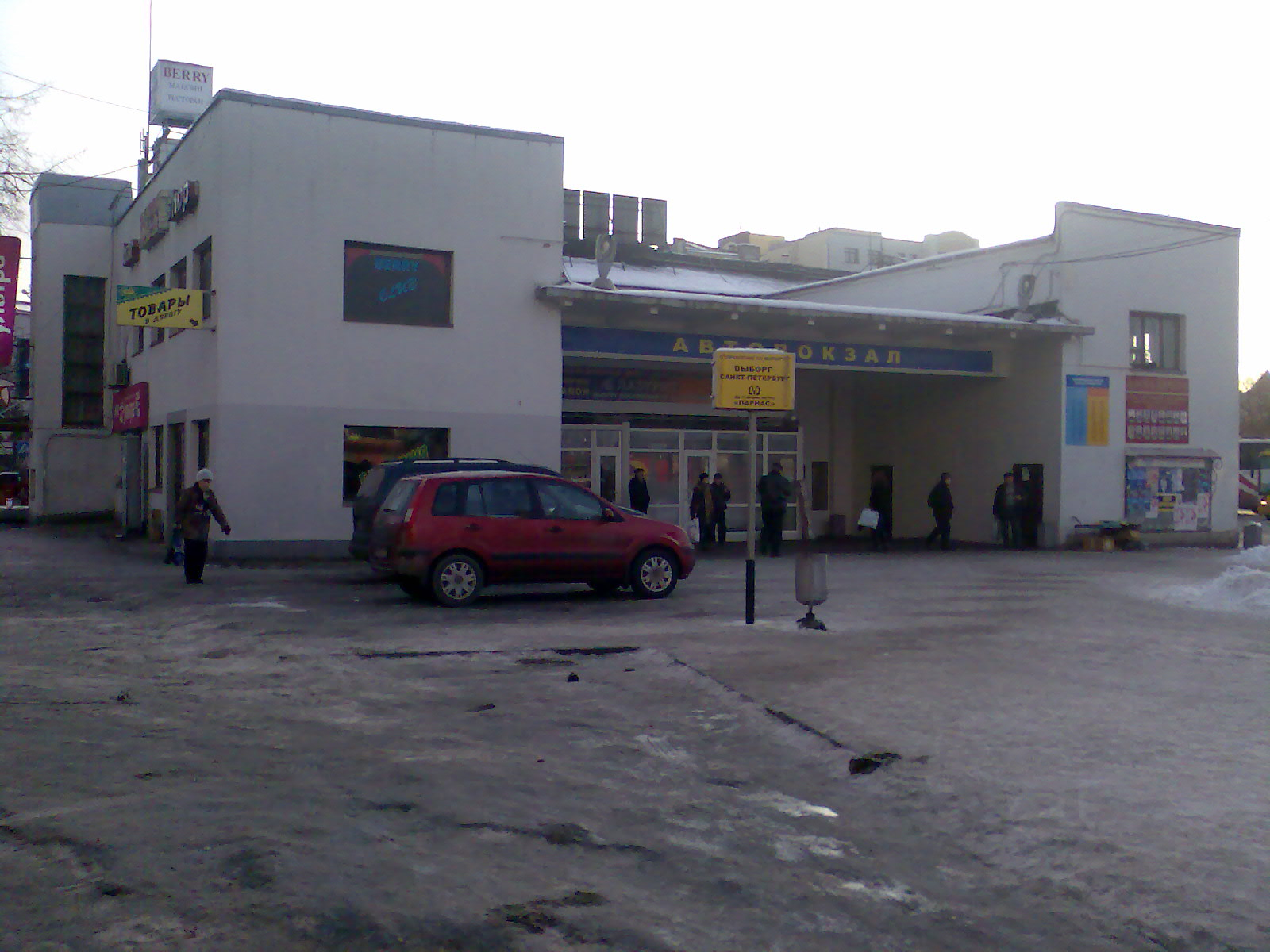 Bus station in Vyborg, Russia.